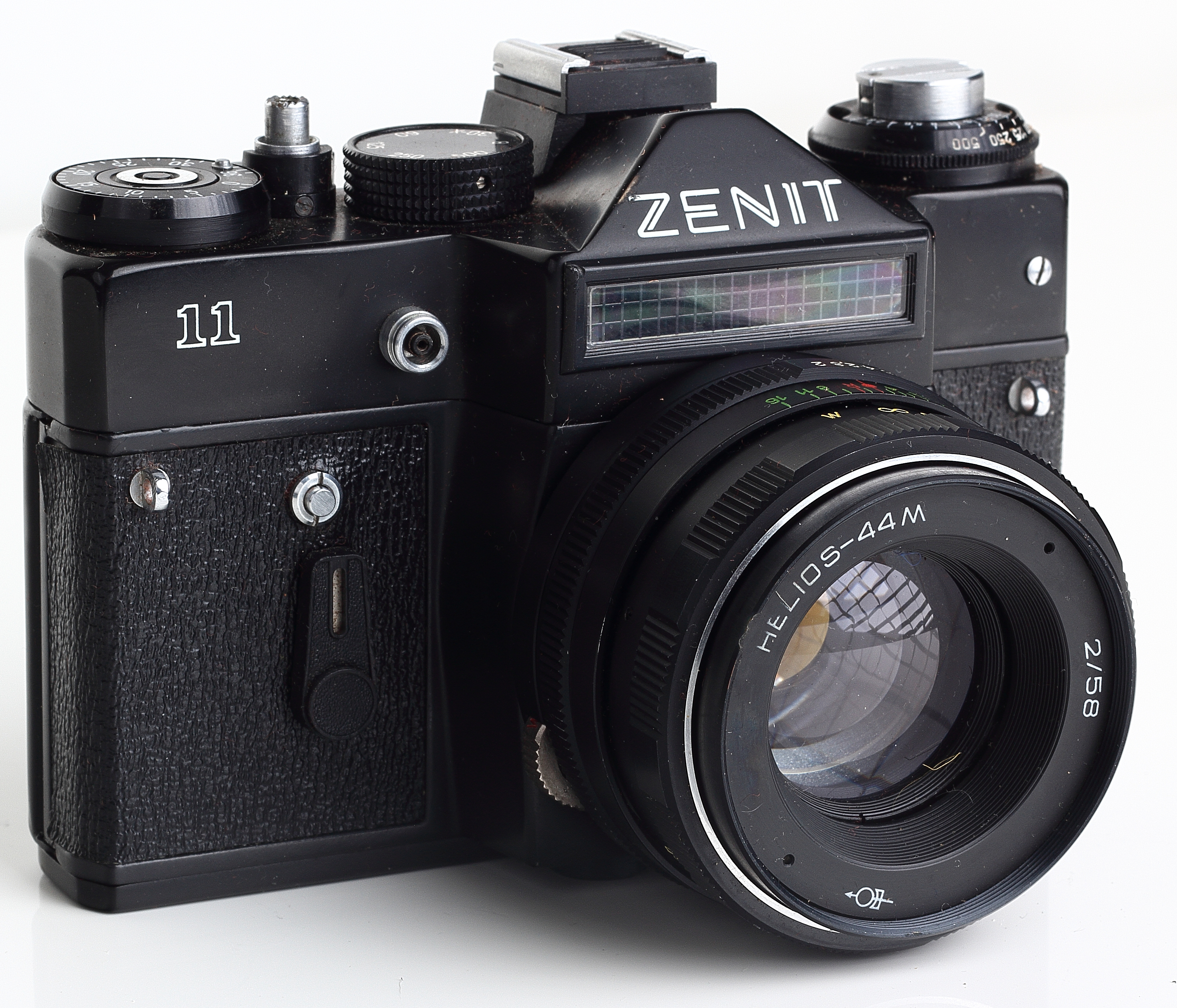 Camera Zenit 11 and camera lens "Helios 44M"